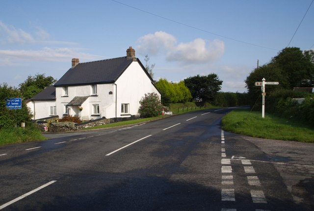 Soldon Cross A minor lane from Thurdon to Sutcombe crosses the unclassified road from Holsworthy to Bradworthy.